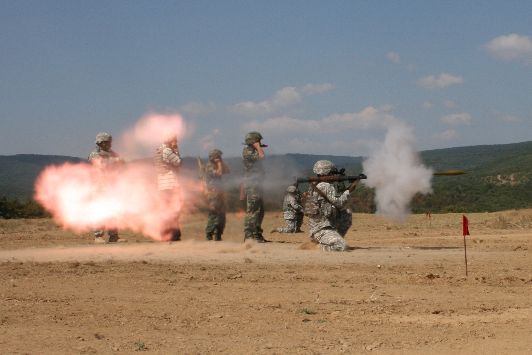 NOVO SELO TRAINING AREA, Bulgaria – U.S. Army Lt. Col. David E. Hurley fires a rocket-propelled grenade on Aug. 18 at a shooting range here. Hurley is the Joint Task Force-East commander of U.S. forces in Bulgaria who observed RPG fire training for the U.S. Army Tennessee National Guard’s 1-181st Field Artillery Battalion out of Chattanooga, Tenn., conducted by members of the Bulgarian Land Forces. JTF-E operations in Bulgaria and Romania provide the U.S. and its partners the opportunity to engage in and demonstrate the continuance of peaceful and friendly international relations through combined training.